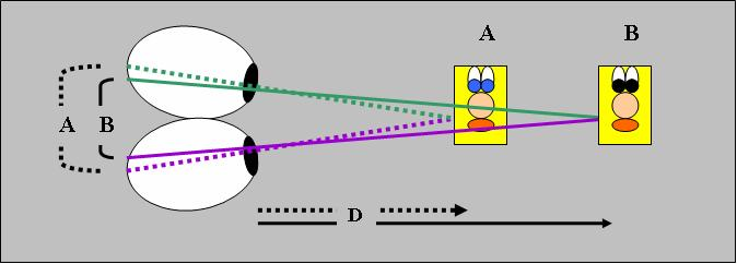 In the example we see how our visual system creates the sense that object A is greater than B; for sensory image created object A is greater than the object B. These images are interpreted by the brain and thus, it is able to reconstruct the spatial location of objects. The spatial reconstruction done by comparing the visual sensations (images acquired by the visual system) and interpreting them according to the distances to the objects found. Thus, the brain interprets the object A is closer than B because it is perceived in a larger size, and vice versa. File:Diplopía fisiológicaA7.jpg, File:Diplopía fisiológicaB8.jpg